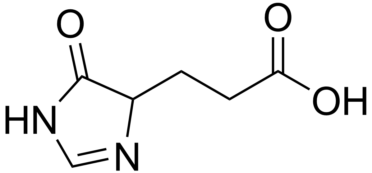 Chemical structure of imidazol-4-one-5-propionic acid created with ChemDraw